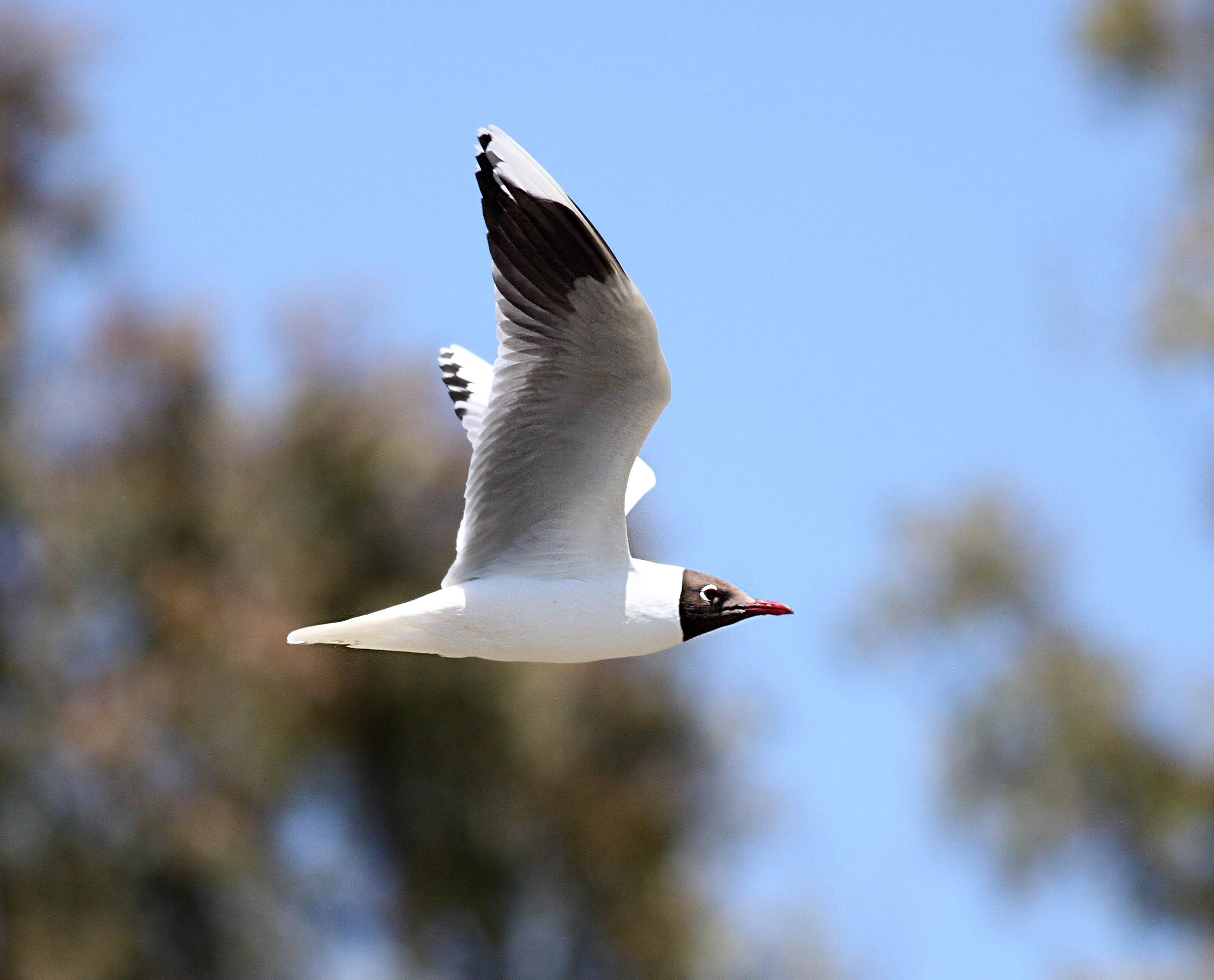 Brown-hooded Gull flying in San Miguel del Monte, Buenos Aires, Argentina.